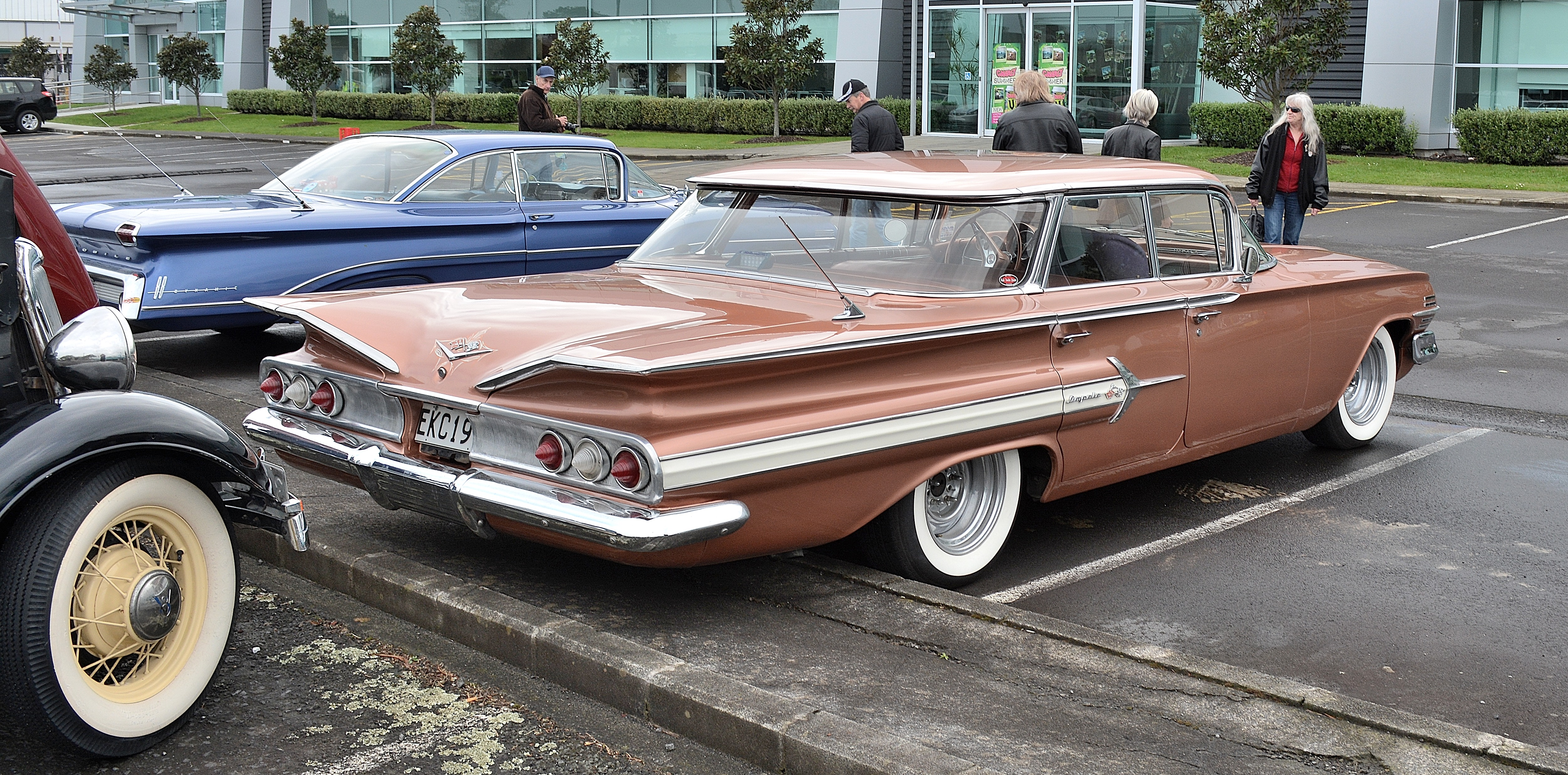 Manakua,South Auckland.New Zealand